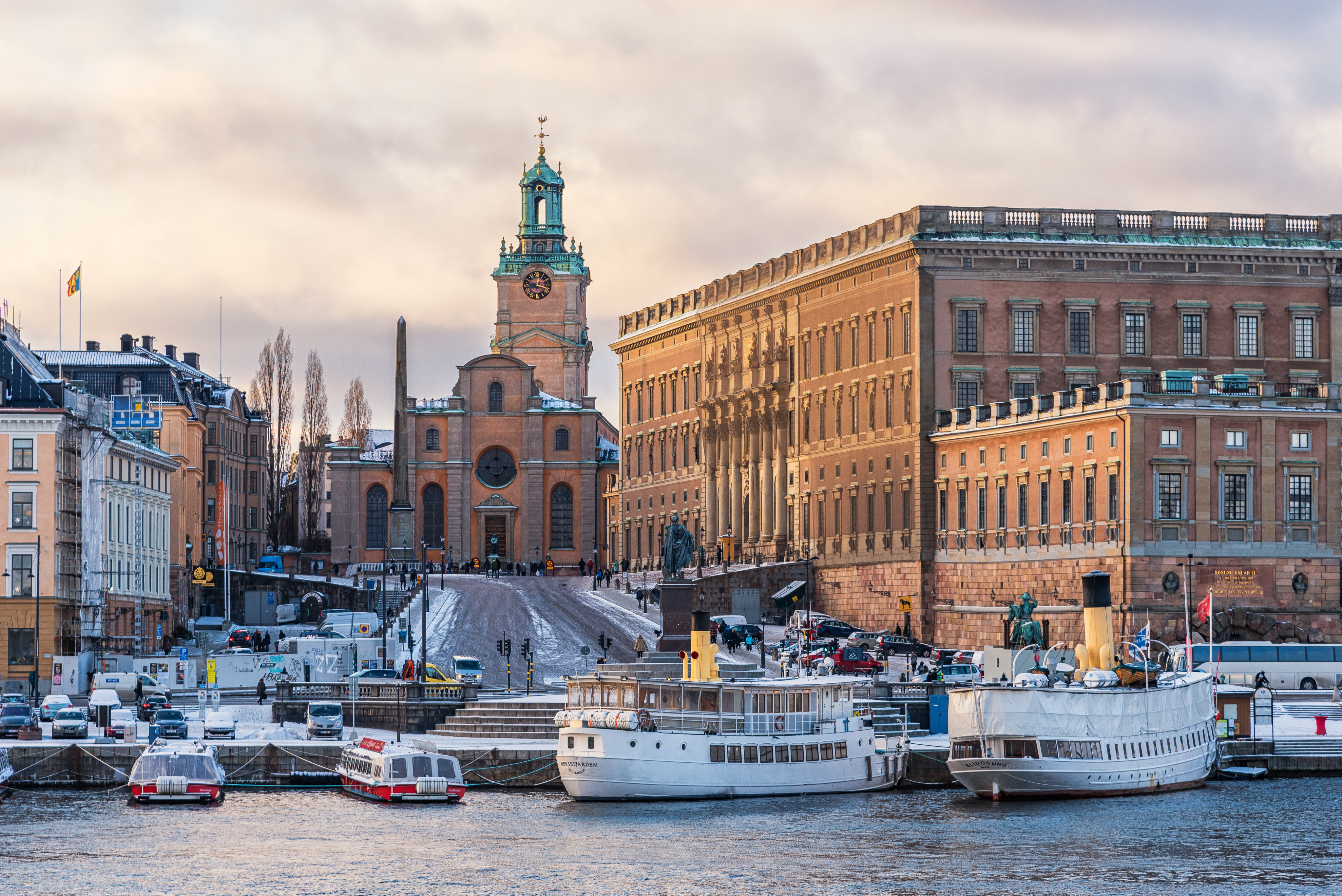 Storkyrkan next to the Kungliga slottet, Stockholm.